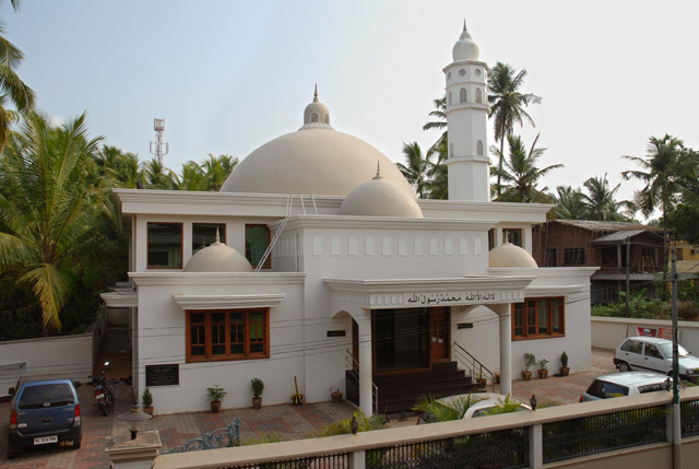 Tahir Mosque, Peyangadi, Kerala